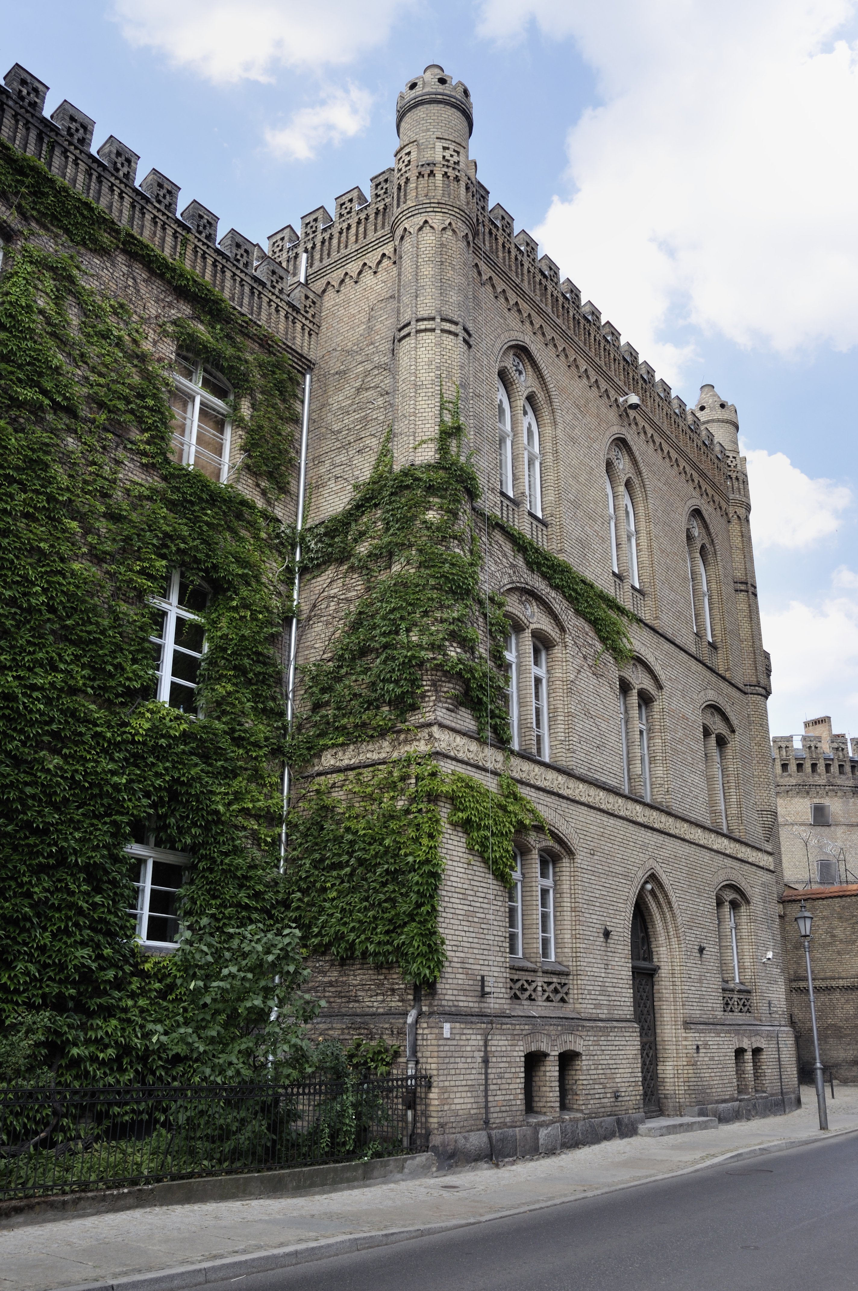 Picture taken in Toruń after Wikimania 2010 conference.